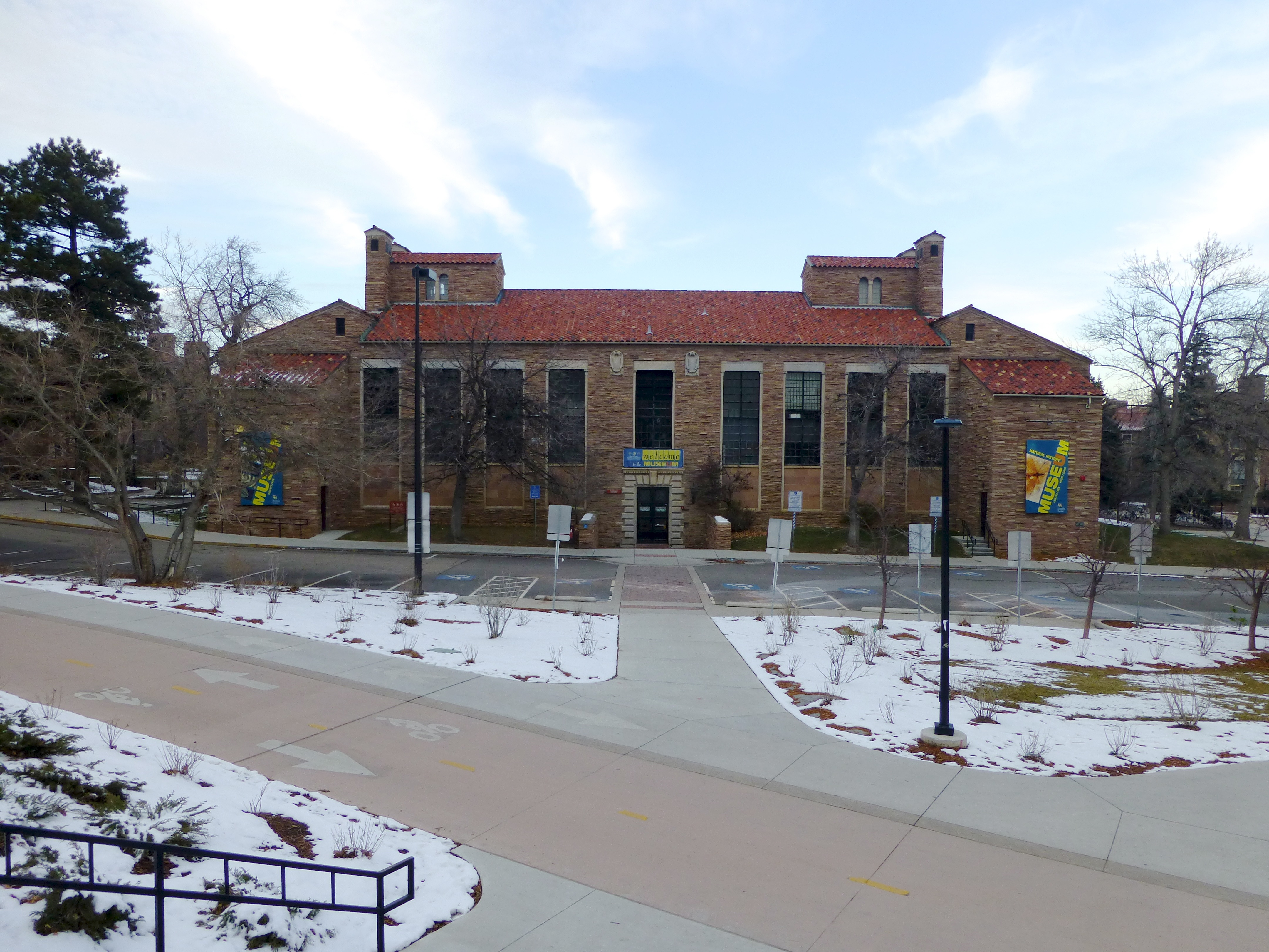 The University of Colorado Museum of Natural History (in the Henderson building) as seen from the bus stop on Broadway